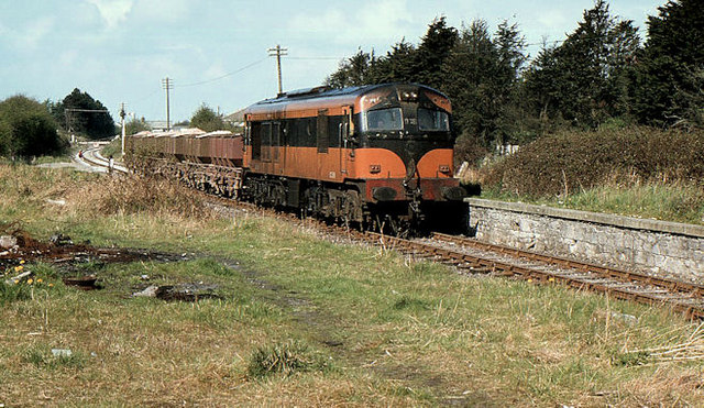 Kingscourt train at Navan Jct, near to An Uaimh, Donaghmore and The Little Furze, Meath, Ireland. Laden gypsum train from Kingscourt passing the overgrown platform at the closed Navan Jct station.